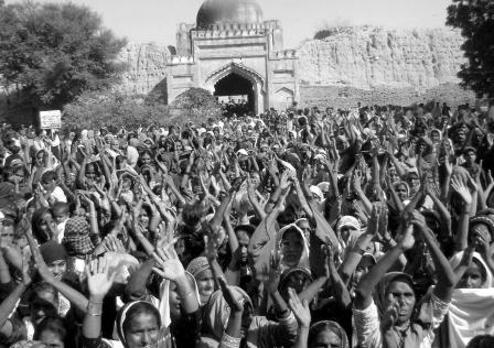 Sindh Peasants Long March photo